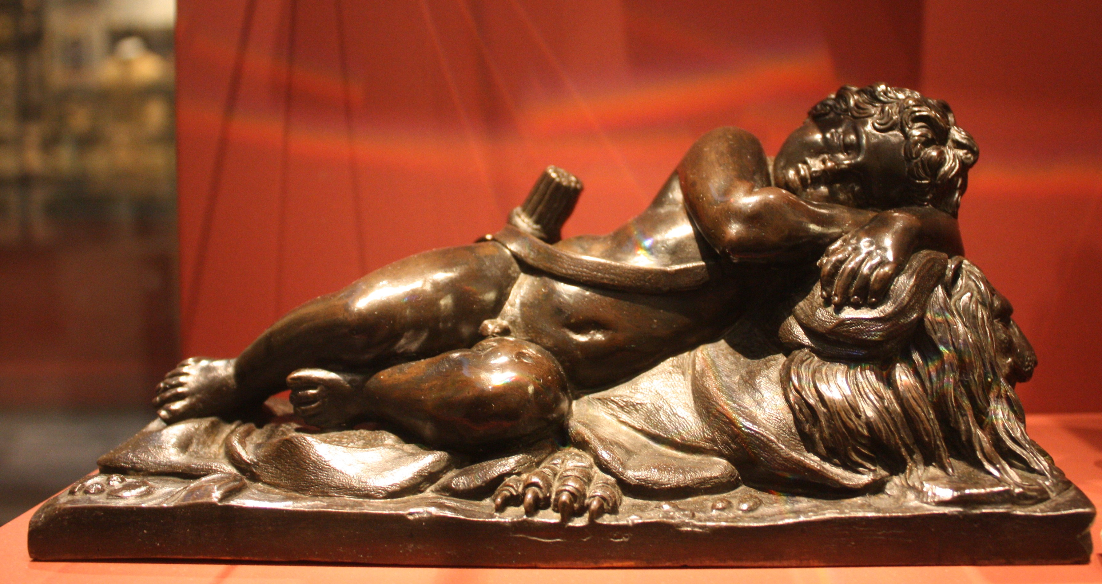 Sleeping Cupid 1635-1640 Signed 'F' under the base Based on a marble ascribed to the ancient Greek sculptor Praxiteles, acquired by Charles I. Museum no. A.2-1981 Wikipedia Loves Art at the Victoria and Albert Museum This photo of item # A.2-1981 at the Victoria and Albert Museum was contributed under the team name "va_va_val" as part of the Wikipedia Loves Art project in February 2009. Victoria and Albert Museum The original photograph on Flickr was taken by Val_McG—please add a comment to the original Flickr page whenever a use has been made on Wikipedia or another project. Project galleries on Flickr: this institution, this team